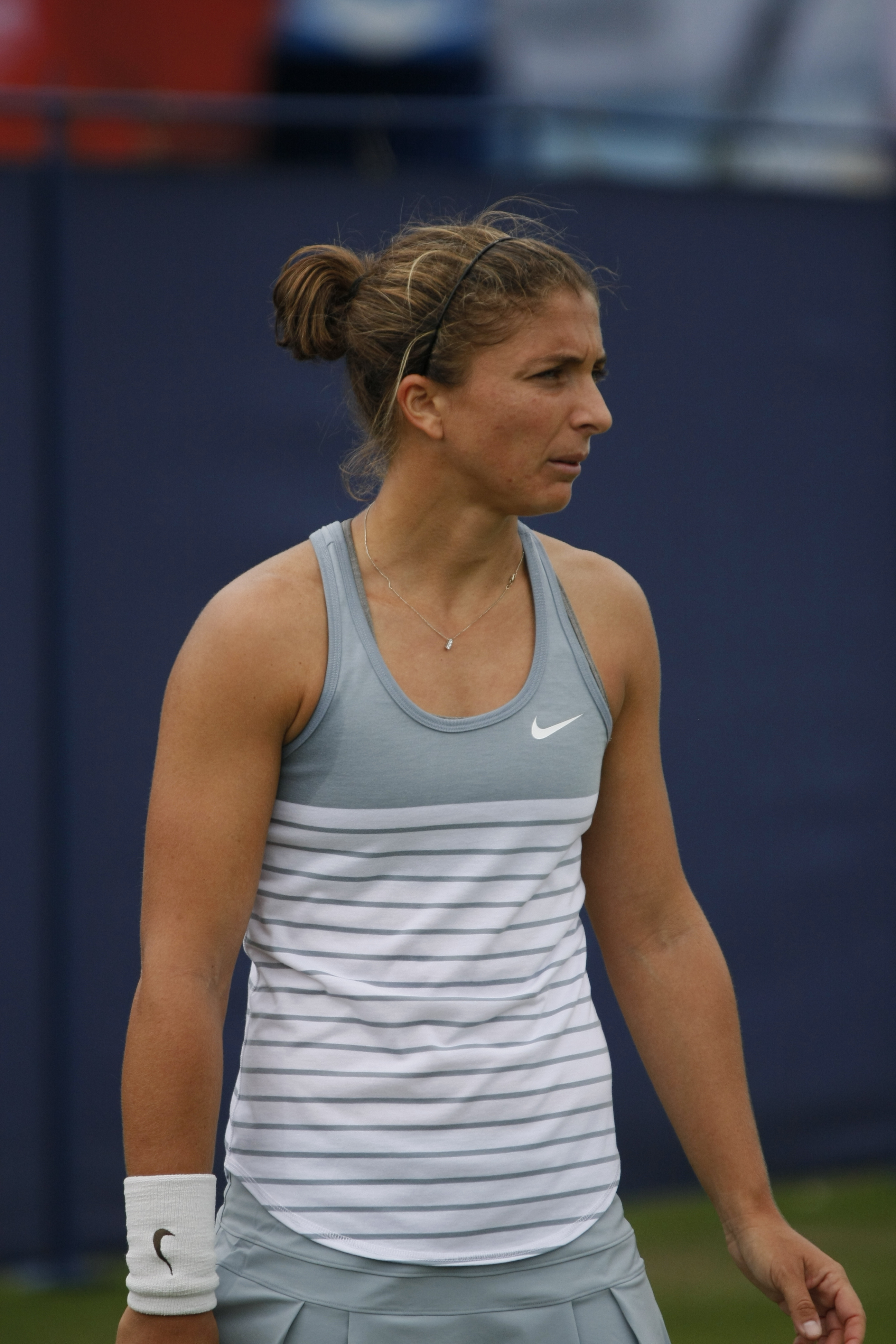 Aegon International Tennis, Devonshire Park, Eastbourne June 2015